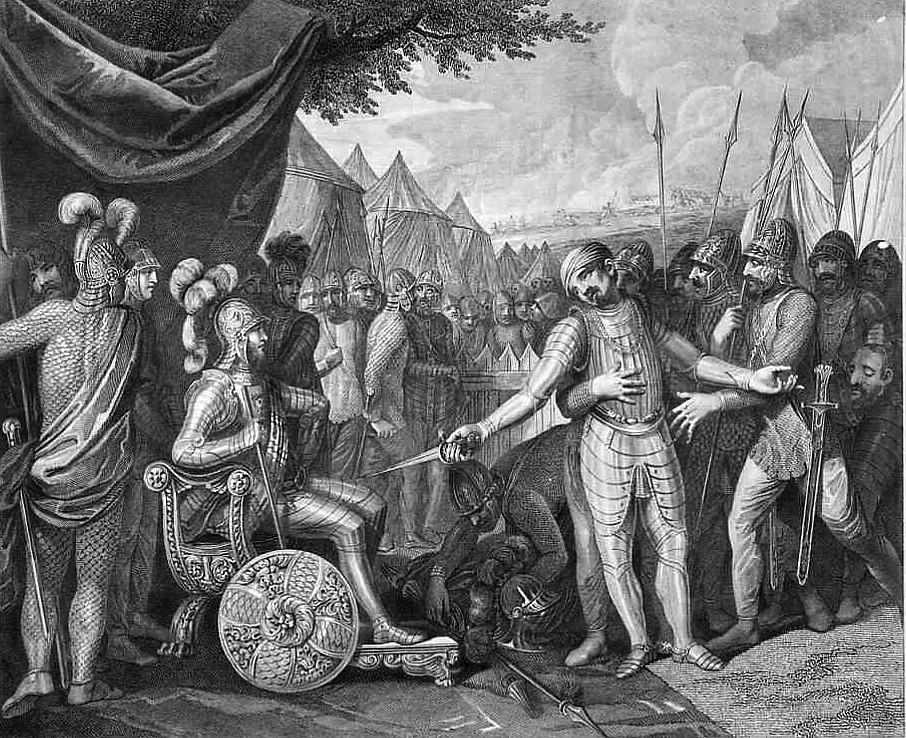 Wichmann the Younger surrenders to the Polish Prince Mieszko